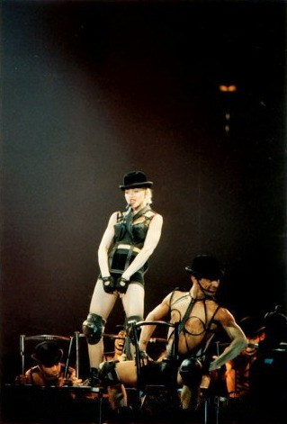 Photo Taken By a Fan During One of The Concerts of 1990